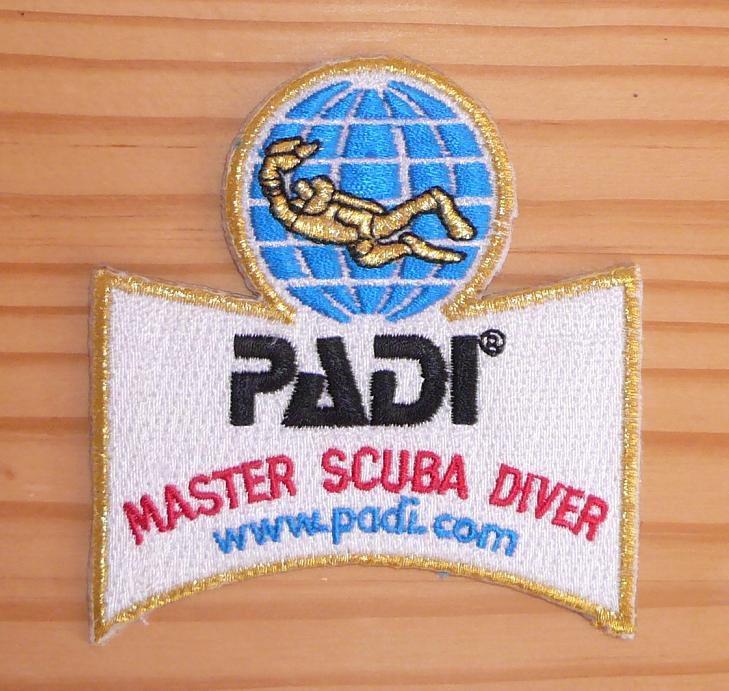 Photograph of a PADI Master SCUBA Diver badge